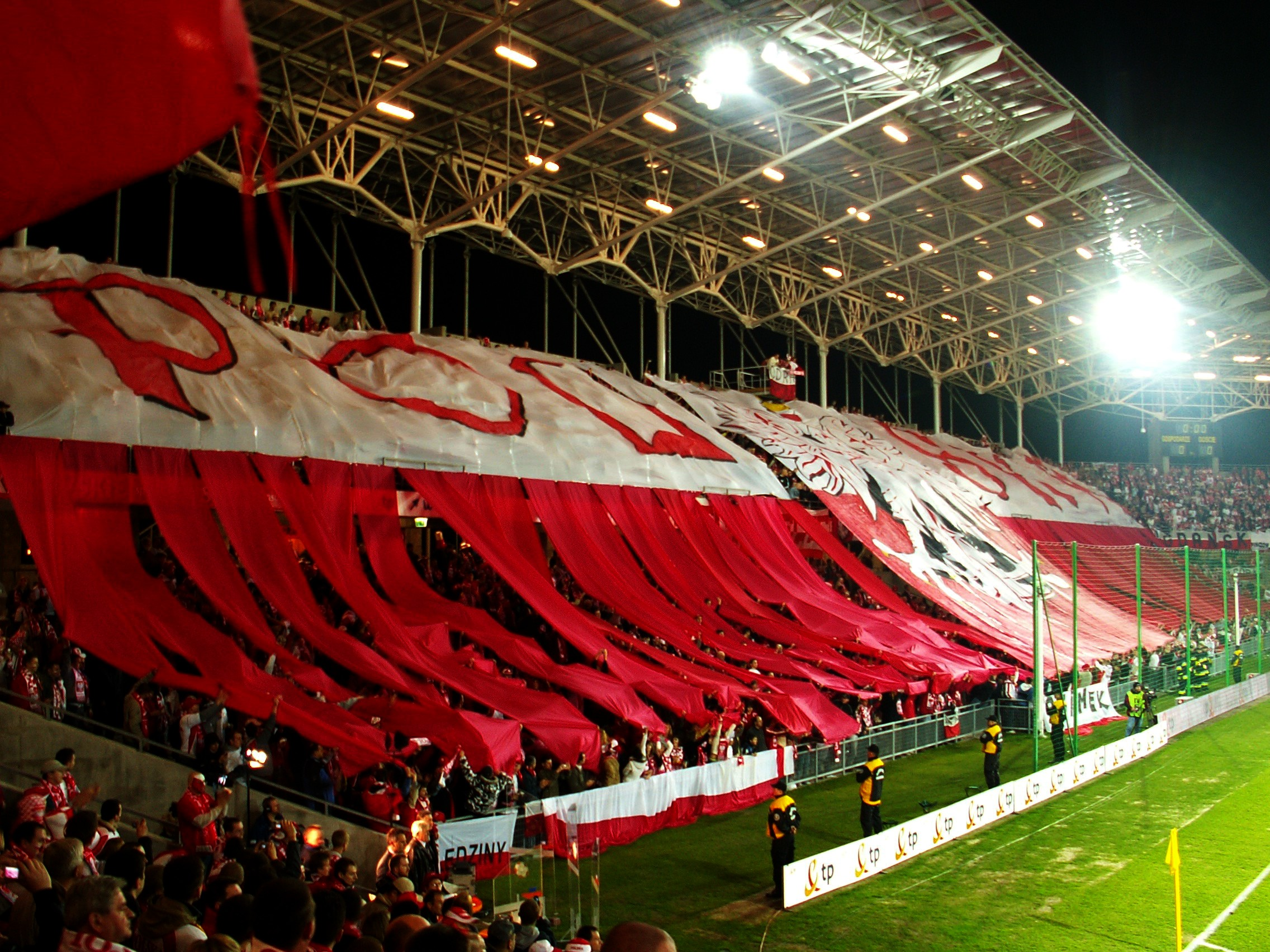 UEFA Euro 2008 qualifying - Poland vs Armenia in Kielce (Poland)